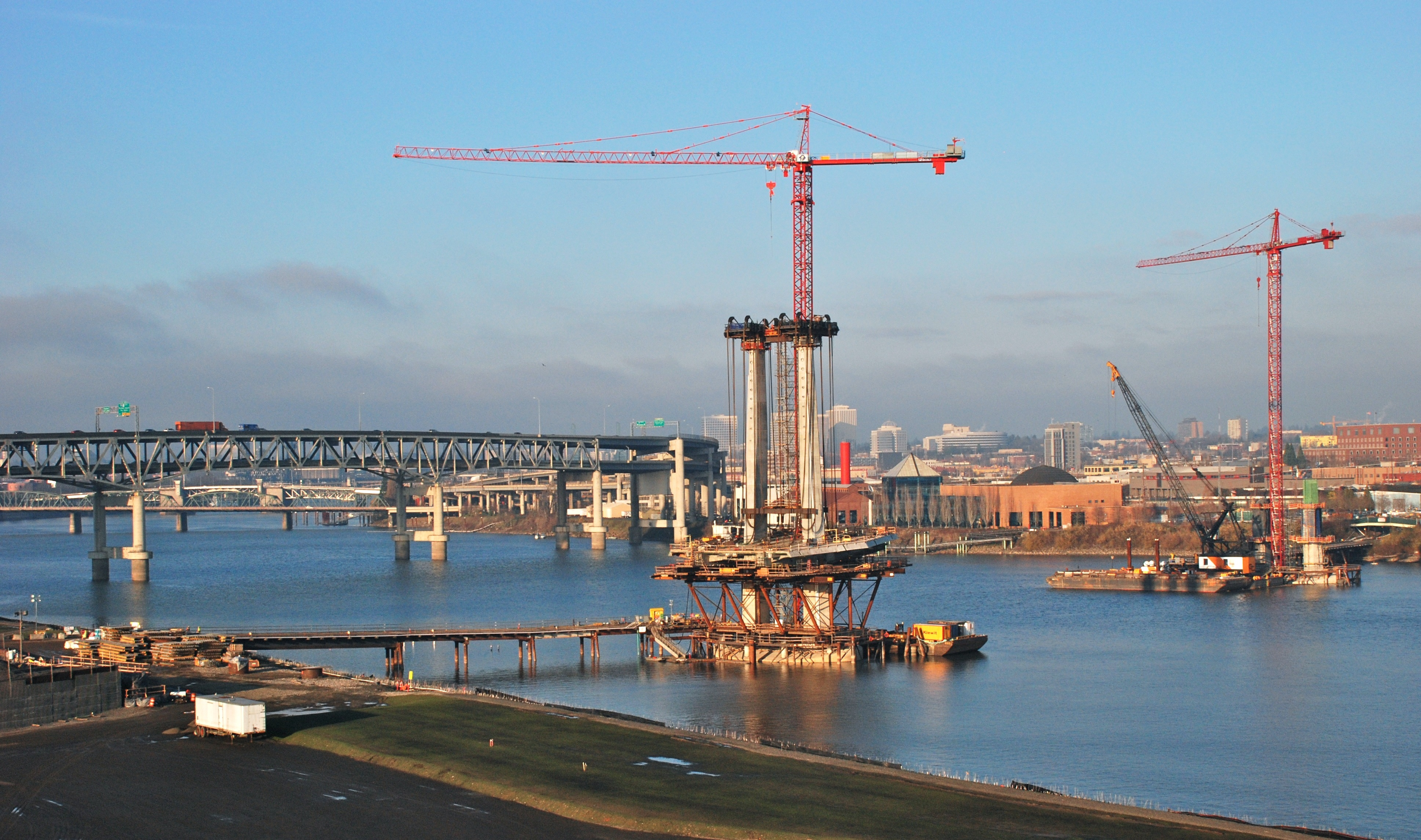 View from the Ross Island Bridge of the towers of the Tilikum Crossing bridge (in Portland, Oregon) under construction across the Willamette River as part of TriMet's Portland–Milwaukie light rail project. At the time of the photo, the bridge had not yet been officially named, and was being officially referred to as the Portland-Milwaukie Light Rail Bridge — and sometimes as the Caruthers Bridge, for the street nearest its east end. Opened in 2015, the bridge carries MAX light rail trains, TriMet buses, the city-owned Portland Streetcar, bicycles, pedestrians and emergency vehicles, but not any private motor vehicles. Visible in the background of this view are the Marquam Bridge (carrying I-5) and the Oregon Museum of Science and Industry (OMSI).